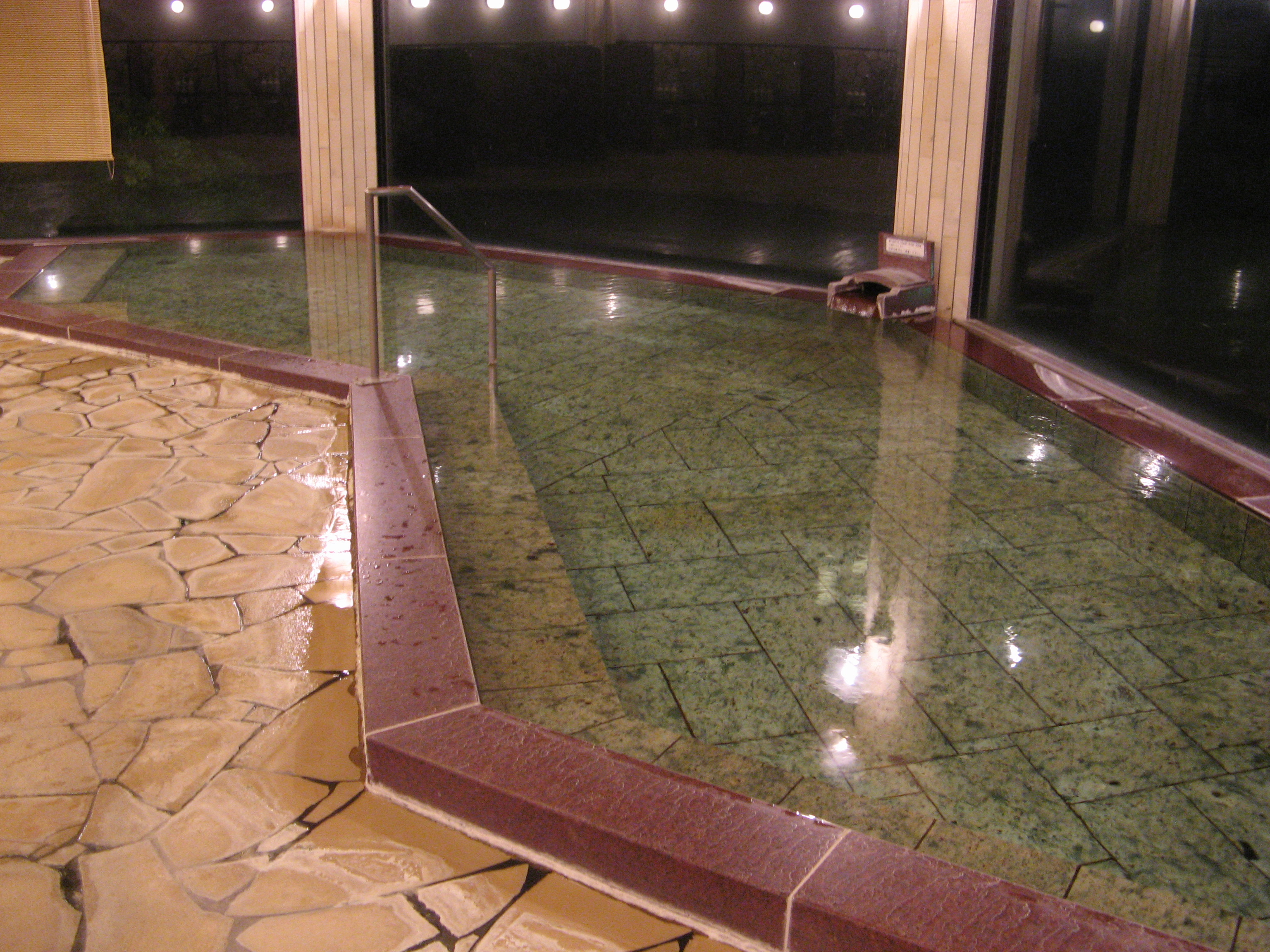 Bath (the Onsen)